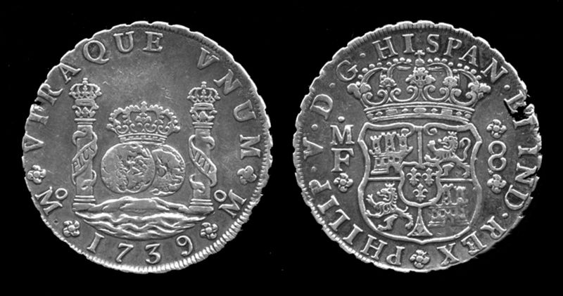 Silver peso of Philip V. (a.k.a. Spanish dollar). Mexico mint. Dated 1739 Mº (Mexico monogram). VTRAQVE VNVM * Mº * 1739 * Mº, crowned hemispheres between pillars with banners inscribed, PLUS and VLTRA. PHILIP • V • D • G • HISPAN • ET IND • REX *, crowned arms; *M/F/* to left, */8/* to right.